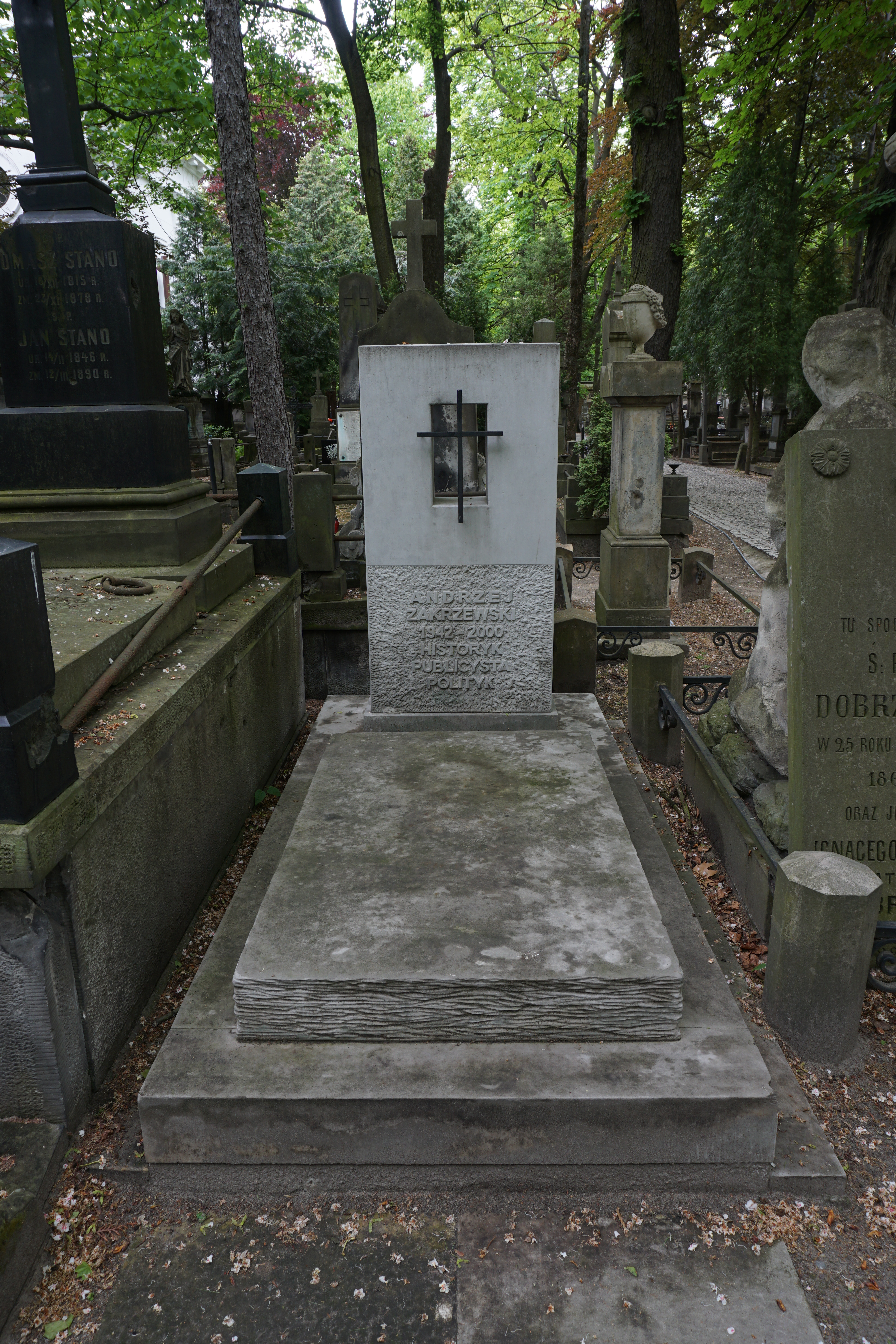 The grave of Andrzej Zakrzewski at the Powązki Cemetery (section 11, row 6, grave 31)